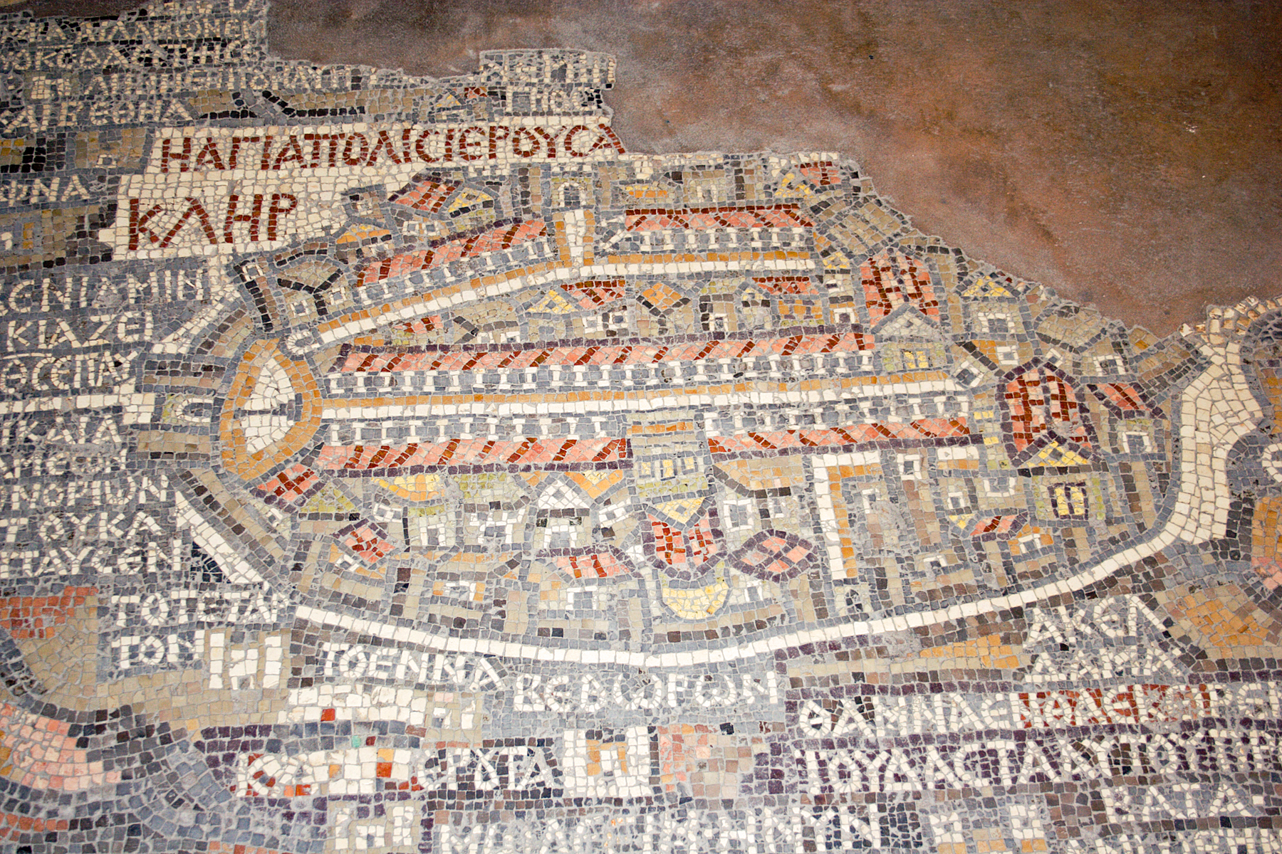 A mosaic map of 6th century Jerusalem found under the floor of St George's Church in Madaba, Jordan. The map depicts some famous Old City structures such as the Damascus Gate, St Steven's Gate, the Golden Gate, the gate leading to Mount Zion, the Citadel (Tower of David), the Church of the Holy Sepulcre, and the Cardo Maximus.